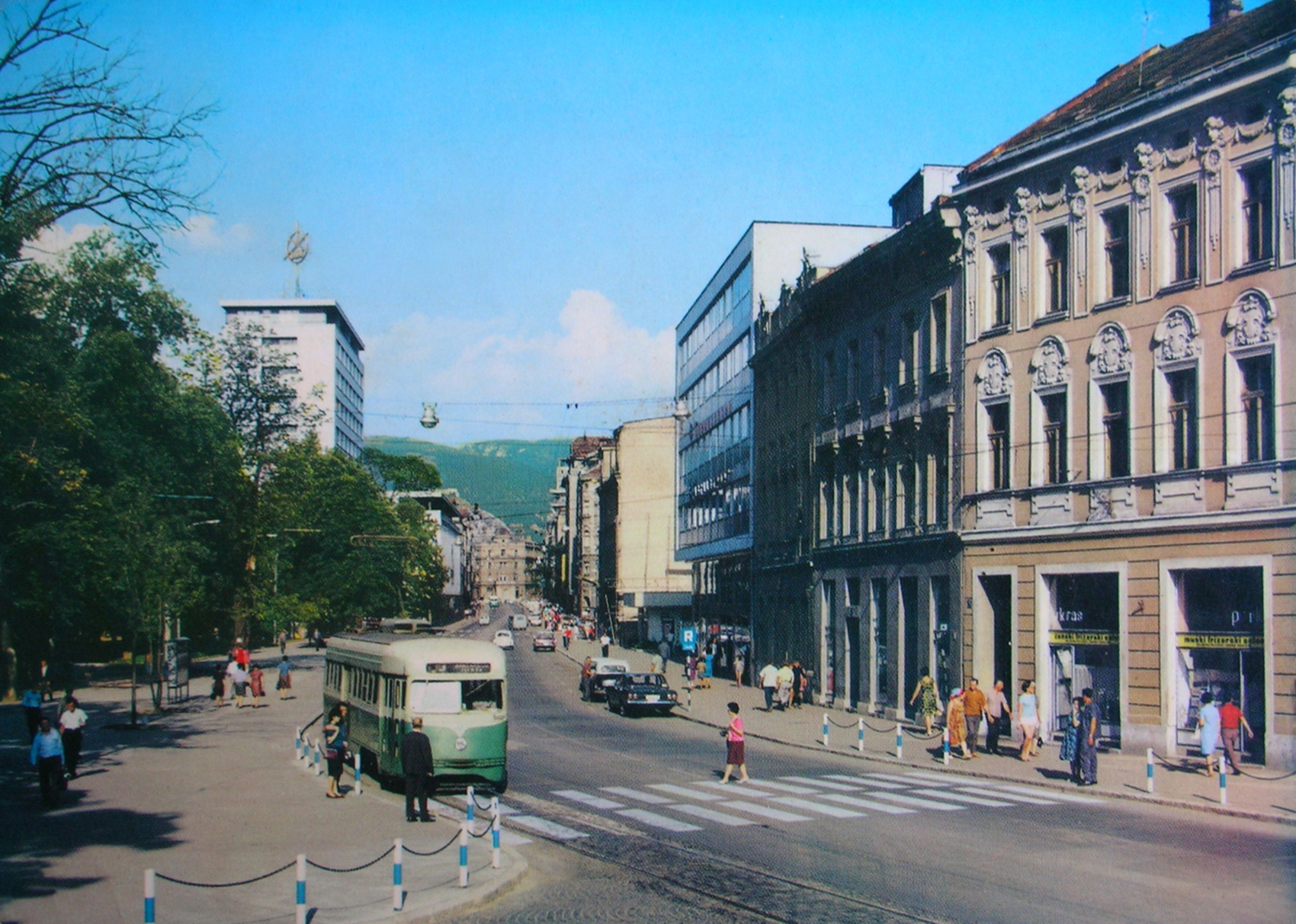 A westbound PCC tram bought from D.C. Transit in Washington, D.C. running on Line 3 in Sarajevo, Yugoslavia, in the 1960s